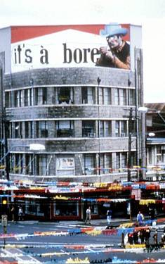 Refaced billboard at North Sydney